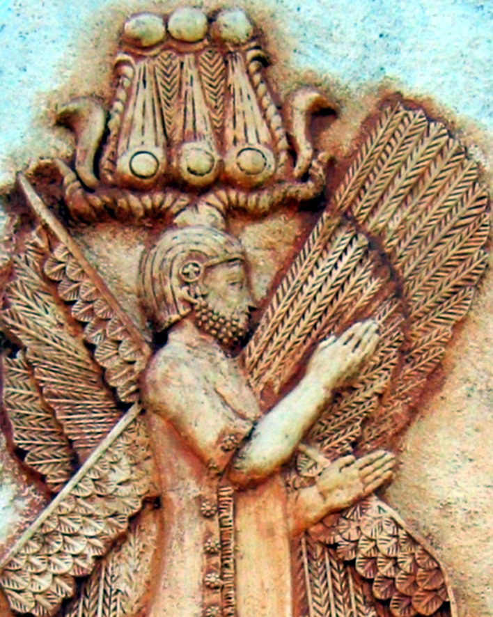 Cyrus the great monument at Sydney Olympic Park